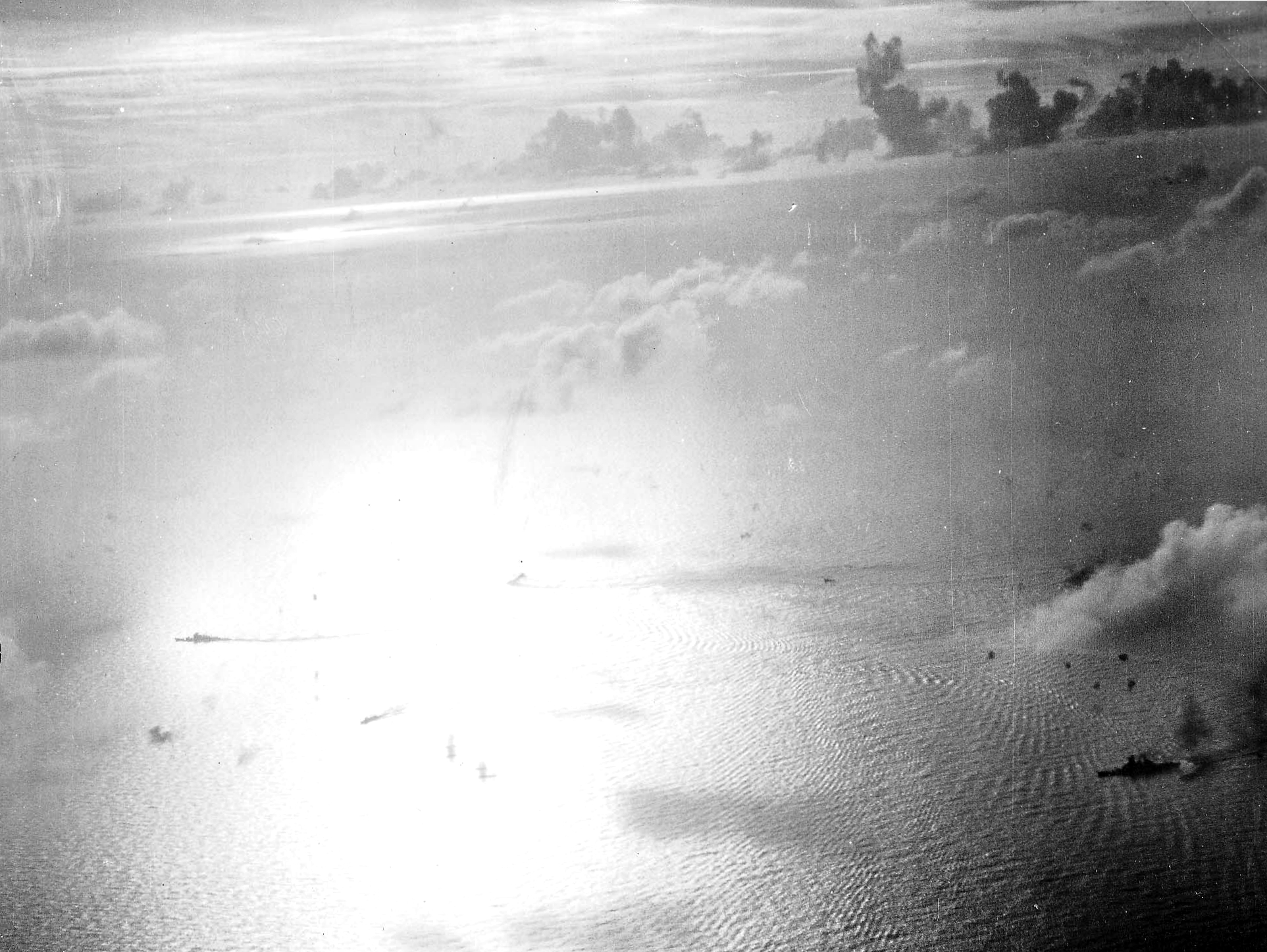 View of aerial attack against Japanese ships by U.S. carrier aircraft during the Battle of the Philippine Sea, 20 June 1944.